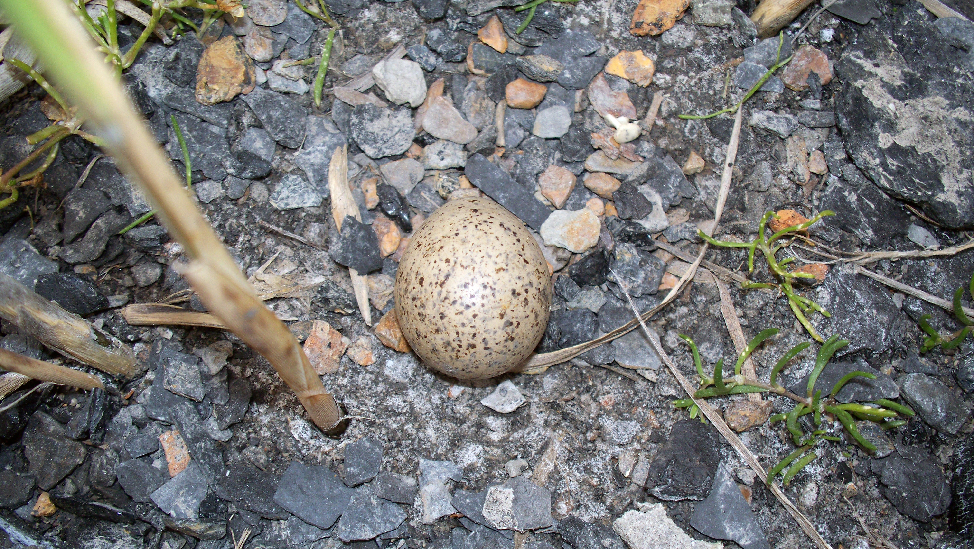 Bentink Colliery spoil heap. Taken by the local crows Latin name Charadrius dubius Family Plovers and lapwings (Charadriidae) Overview A small plover with a distinctive black and white head pattern, similar to... Where to see them ... When to see them Arrives in the UK in March and leaves again in late June and July. What they eat Insects